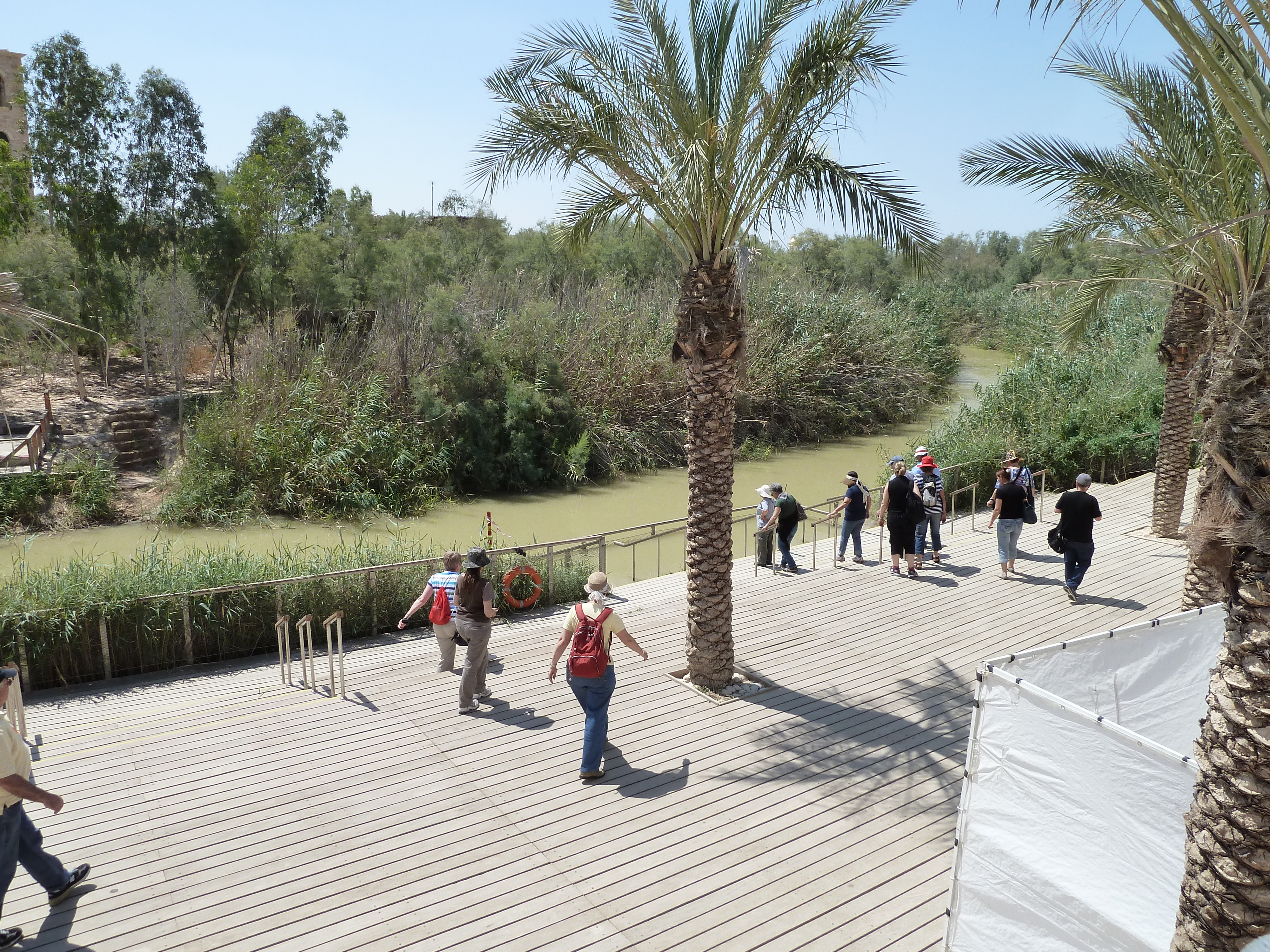 Qasr al-Yahud - Place of Jesus Baptism, on the bank of the Jordan River, North of the Dead Sea, Palestine